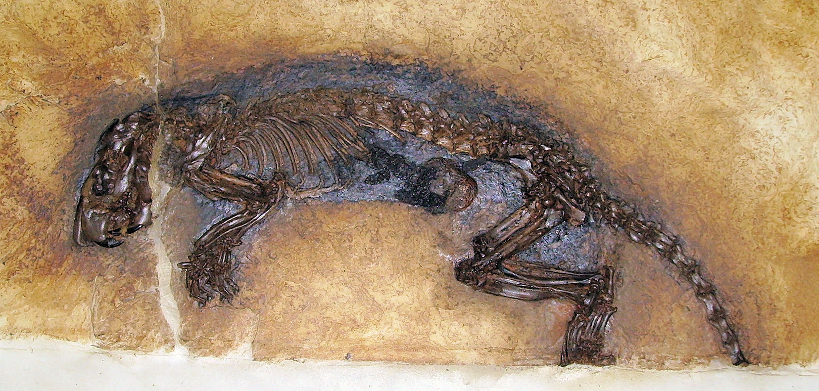 Masillamys sp. Archive number: SMF ME 11295 (A–C); Location: Senckenberg Research Institute and Nature Museum, Messel Research Division, Frankfurt am Main, Germany. Age: ca. 47 MYA. Discovery location: UNESCO Messel World Nature Heritage Excavation near Darmstadt. Found by Senckenberg excavation in September 2007.